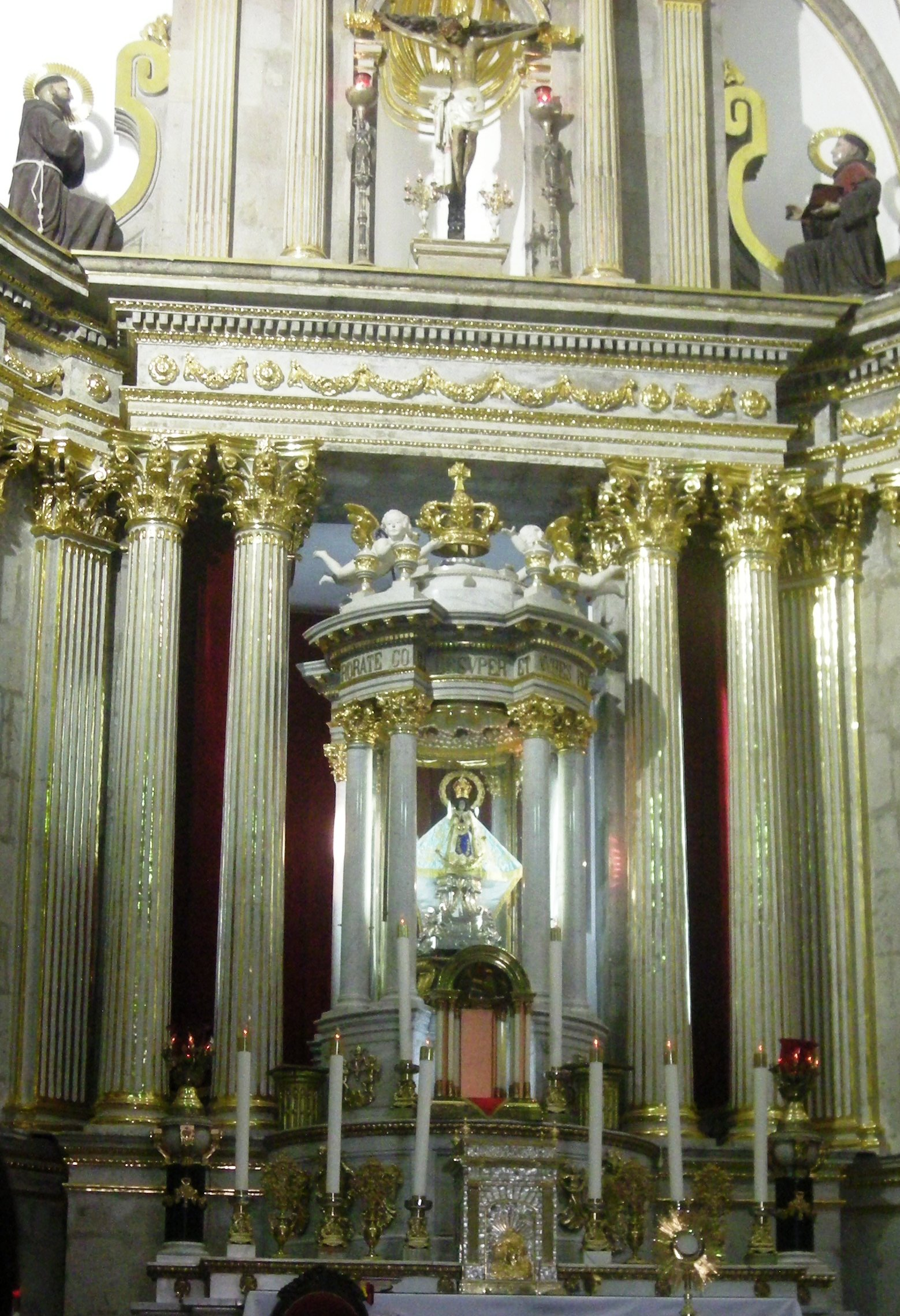 Image of Our Lady of Zapopan in her basilica in Zapopan, Jalisco, Mexico